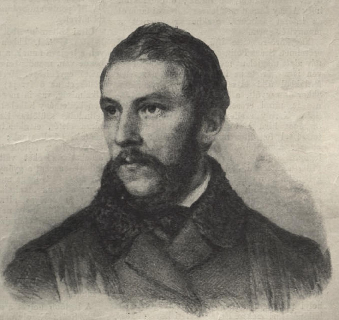 Portrait of the writer Károly Szász